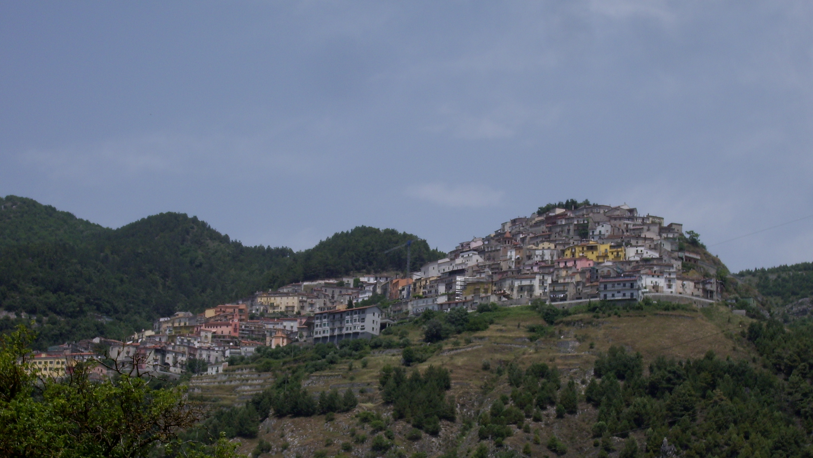 Castelluccio Superiore